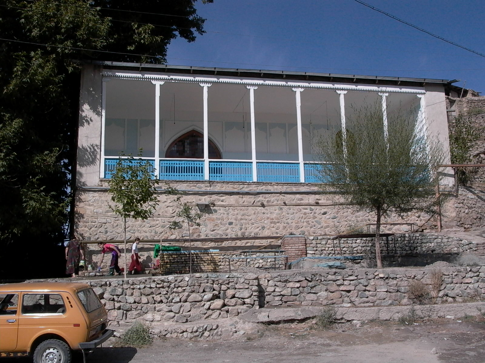 Ambaras mosque in Ordubad. Nakhichevan Autonomous Republic, Azerbaijan.